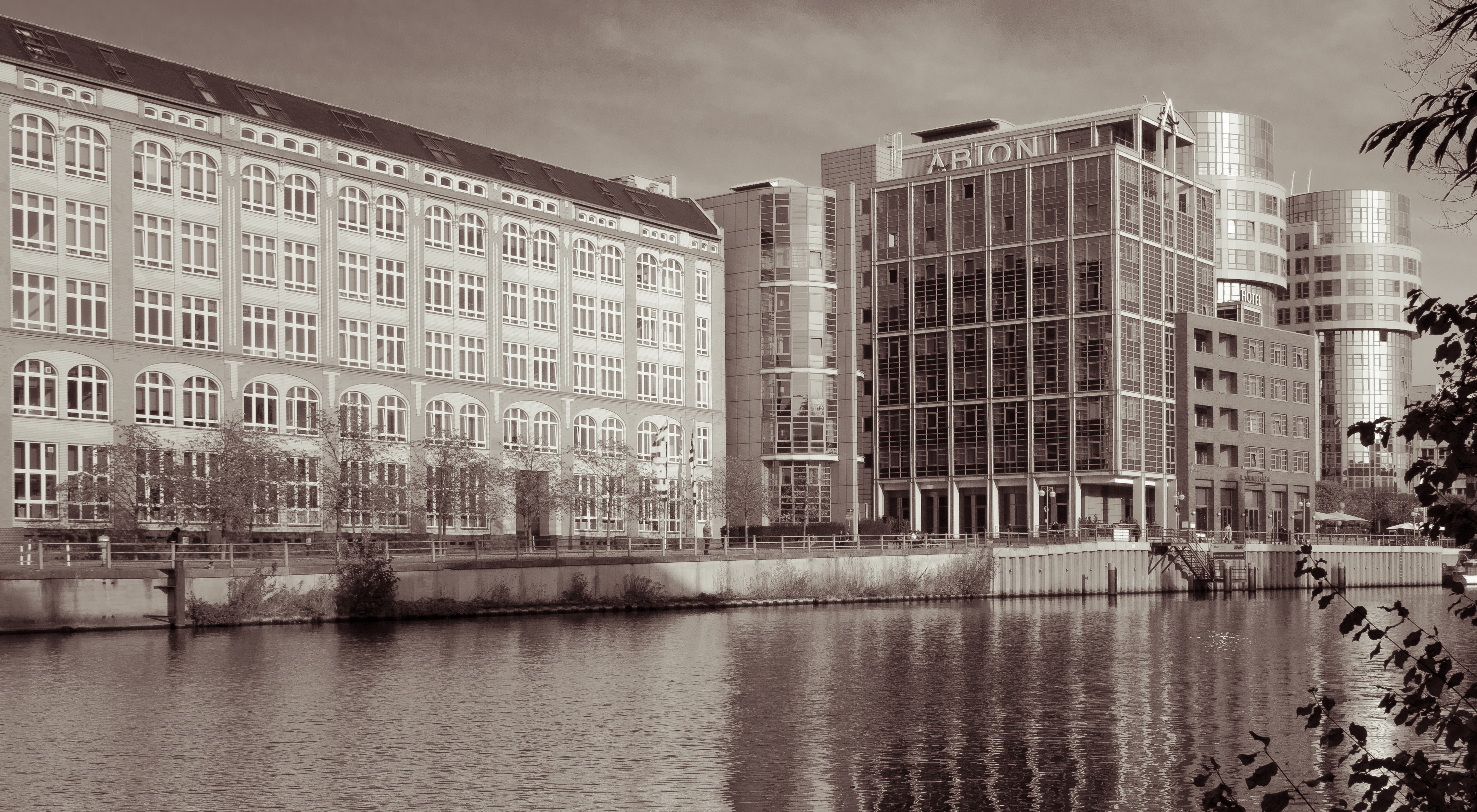 Berlin, Spree, north-facing Spree view from Holsteiner Ufer